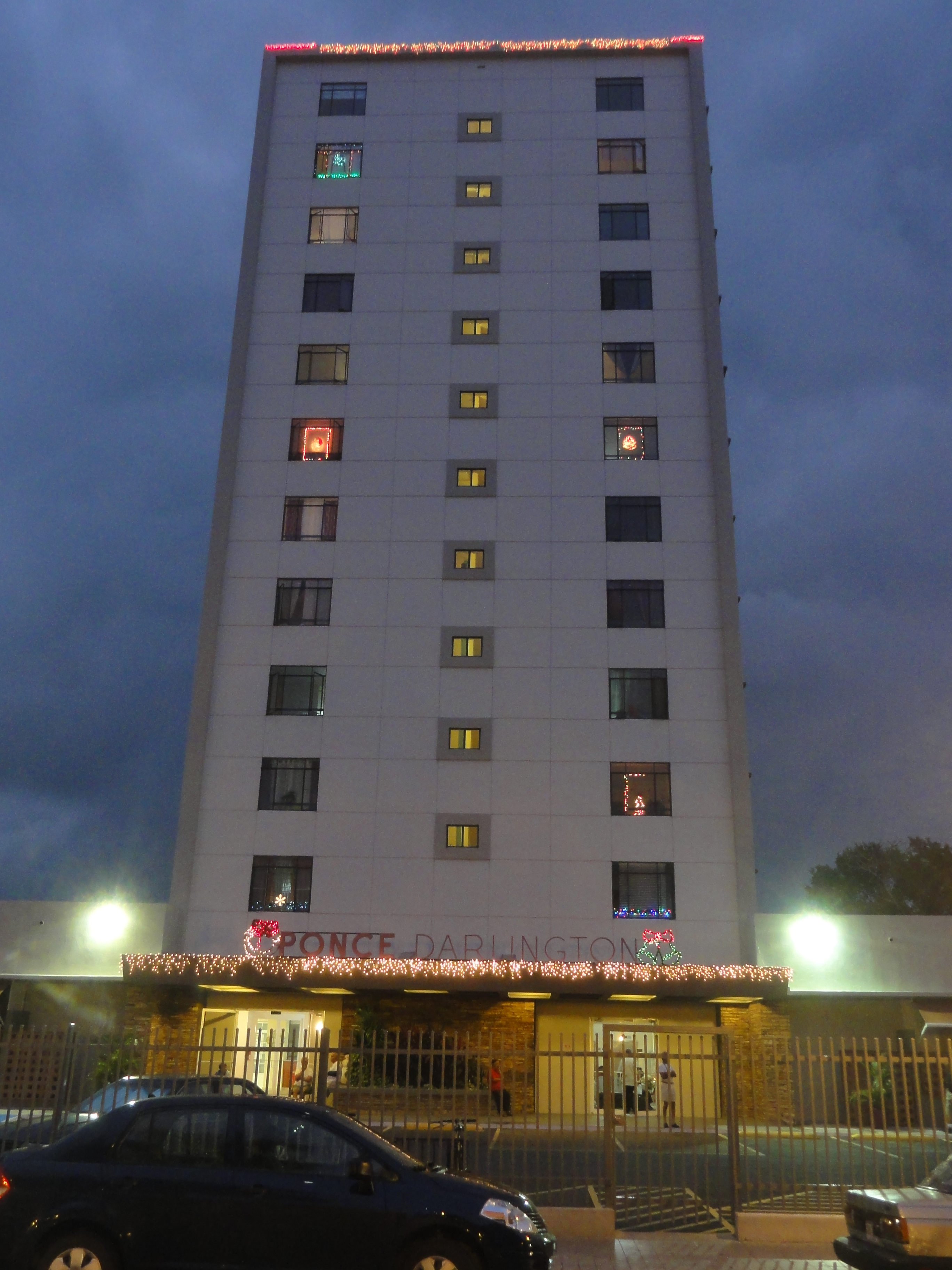 Edificio Ponce Darlington, Barrio Primero, Ponce, Puerto Rico (DSC05036)